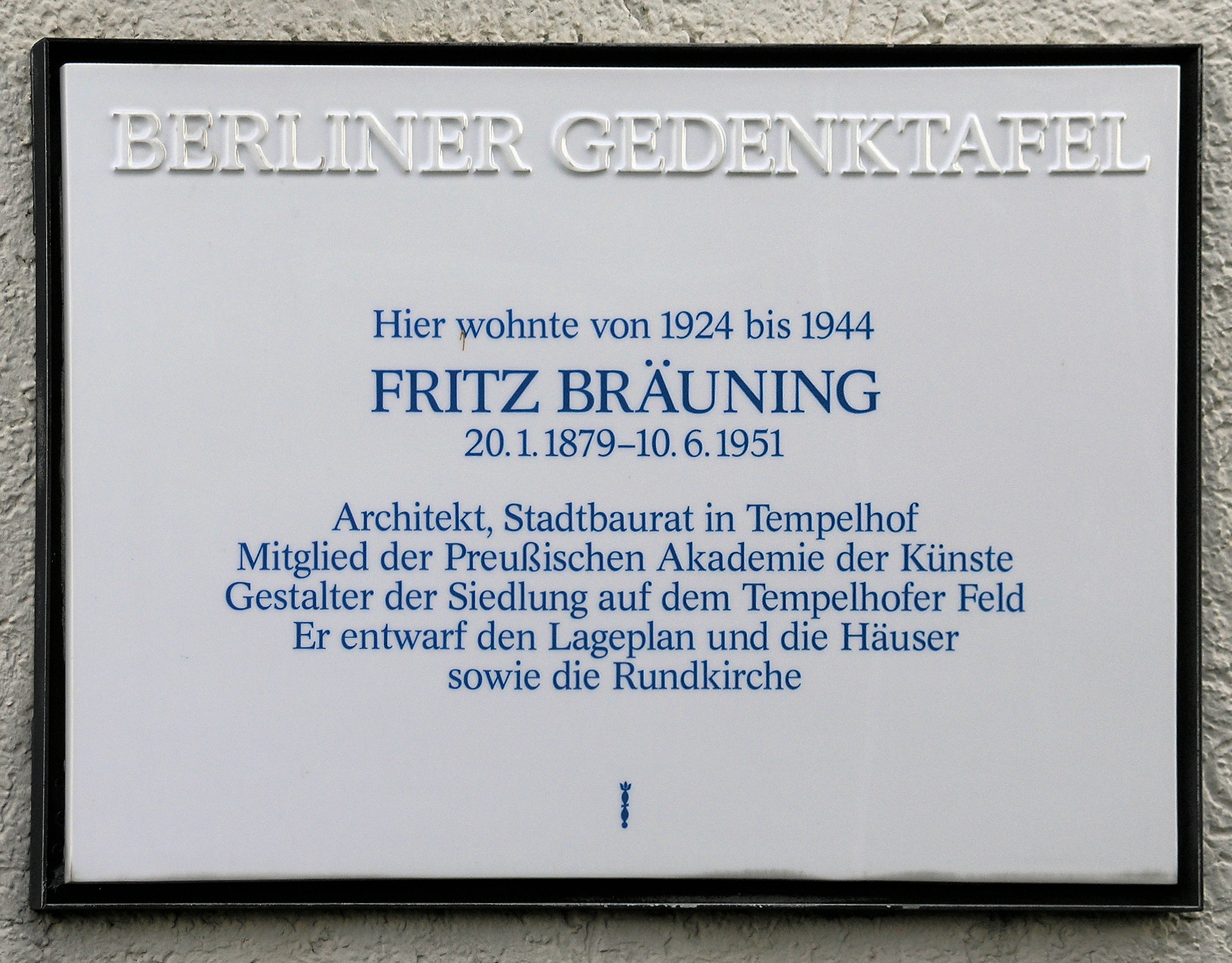 Berlin memorial plaque, Fritz Bräuning, Manfred-von-Richthofen-Straße 77, Berlin-Tempelhof, Germany Koordinate:52°28′40″N 13°22′43″E / 52.47778°N 13.37861°E